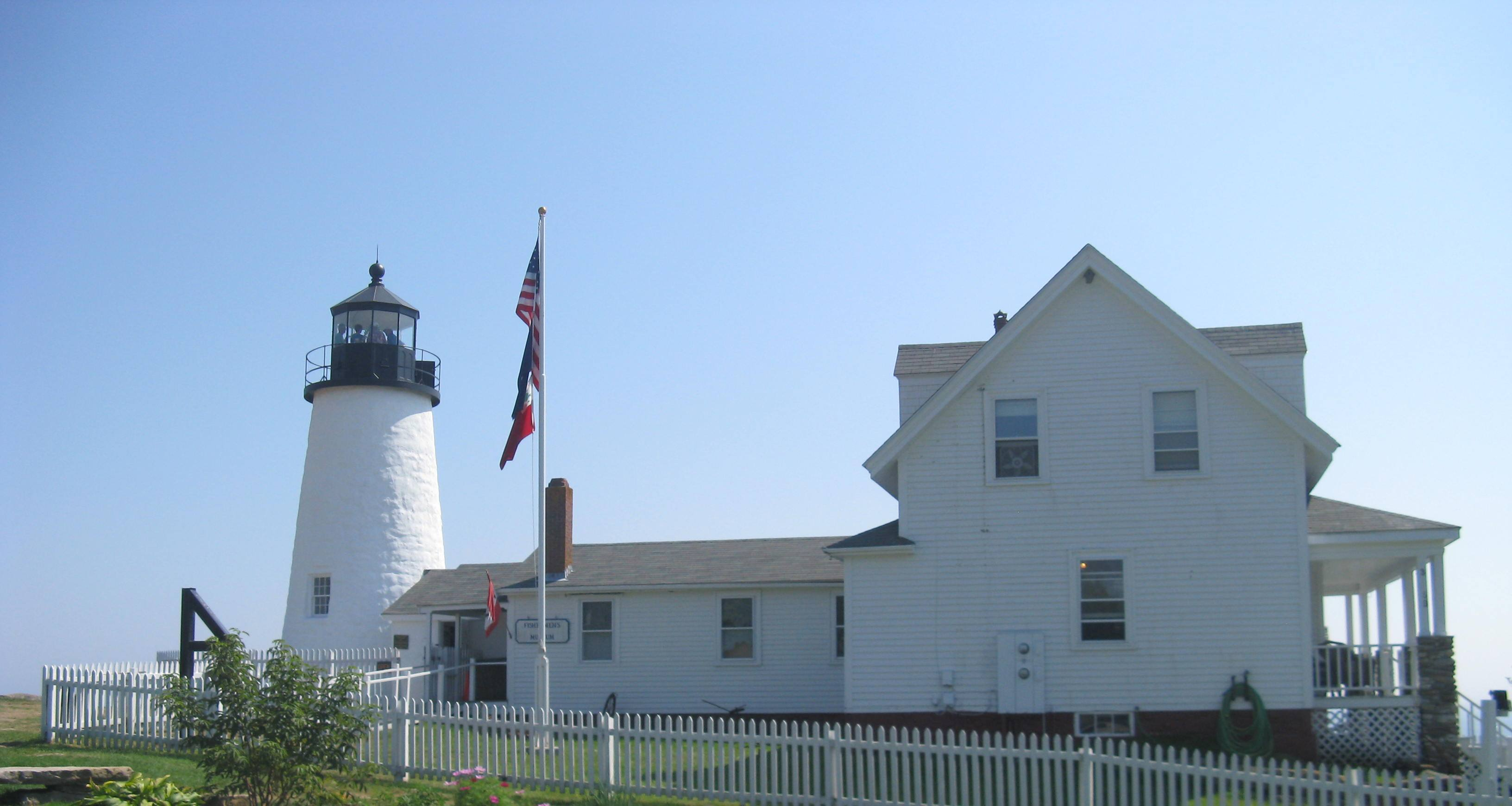 Pemaquid Point Lighthouse